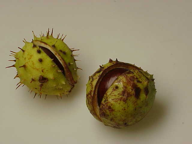 Species: Aesculus hippocastanum Family: Hippocastanaceae Image No. 10